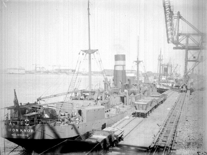 SS Iron Knob at Newcastle Steel Works